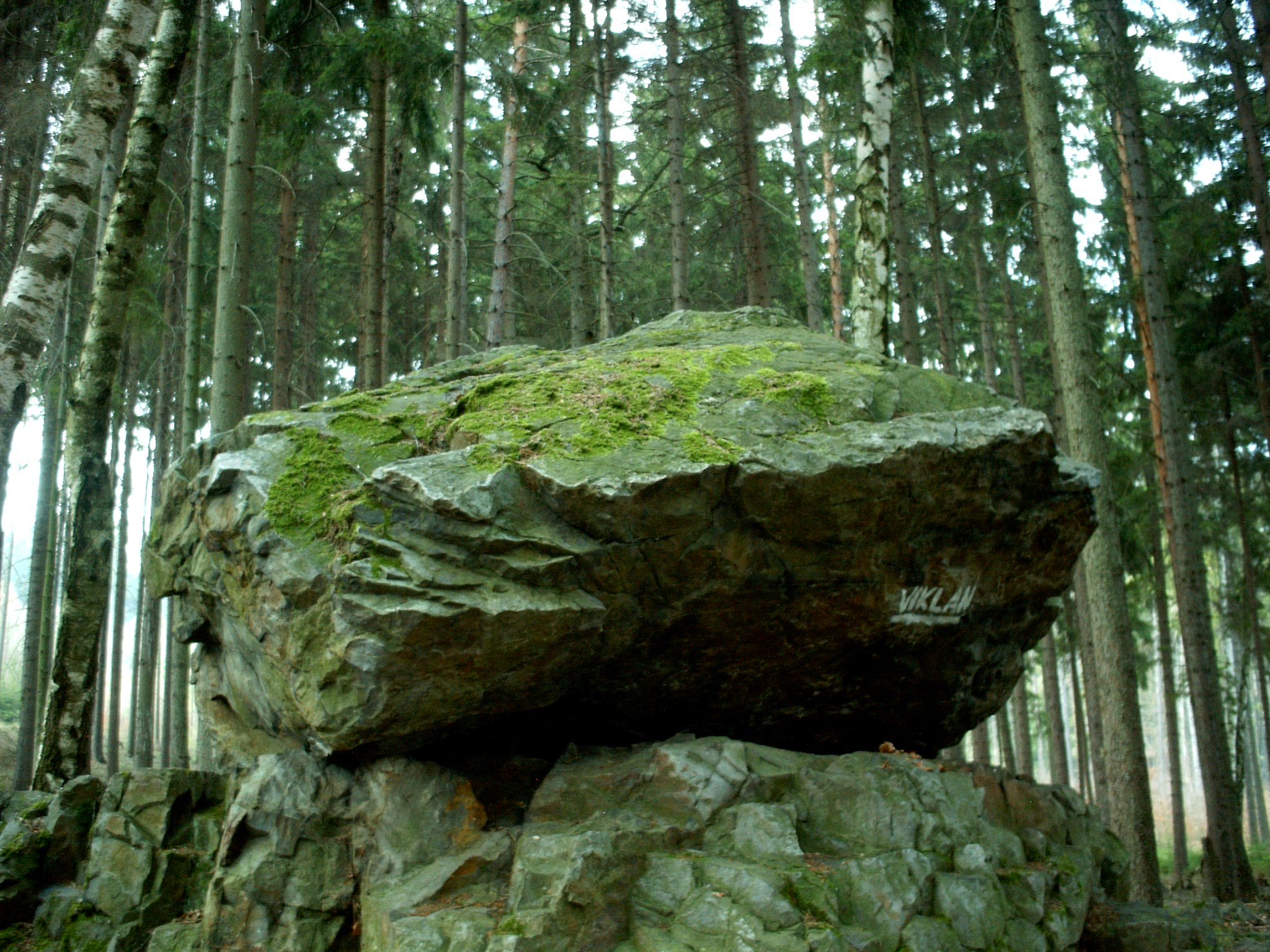 Balance rock at Plešivec mountain in Brdy near Jince, Příbram District, Czech Republic